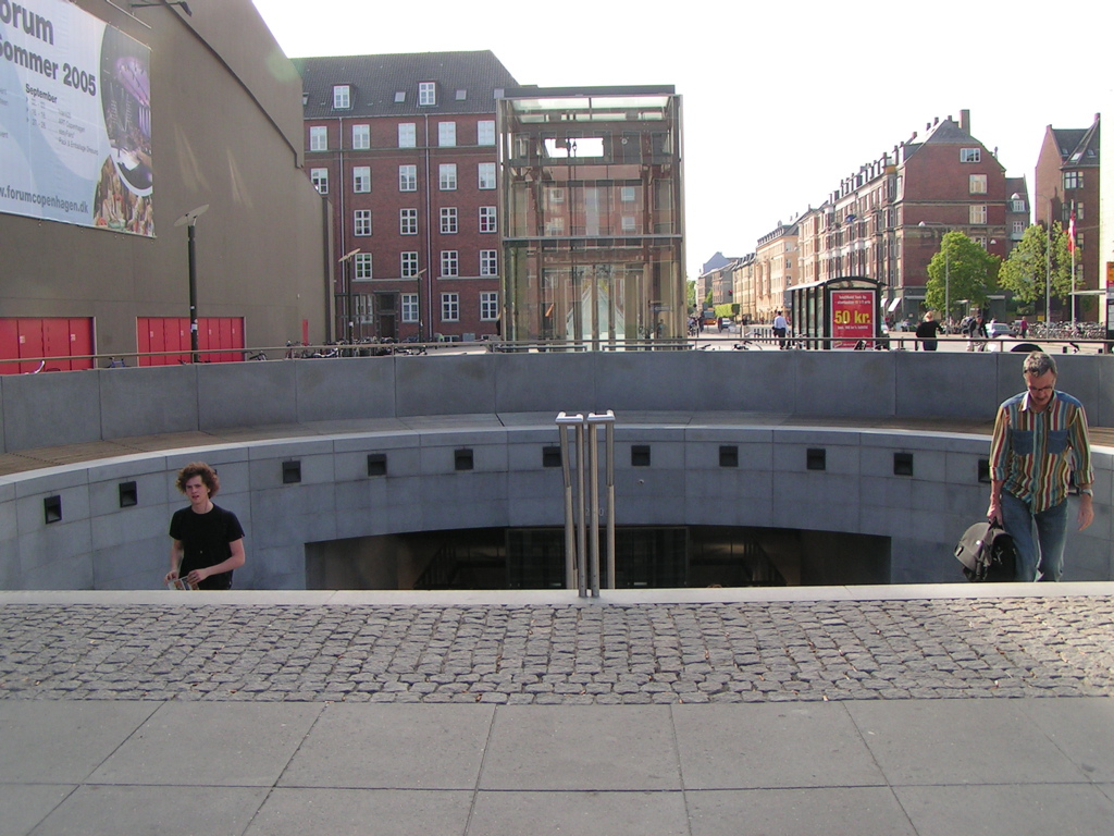 Entrance to the metro station at Forum.